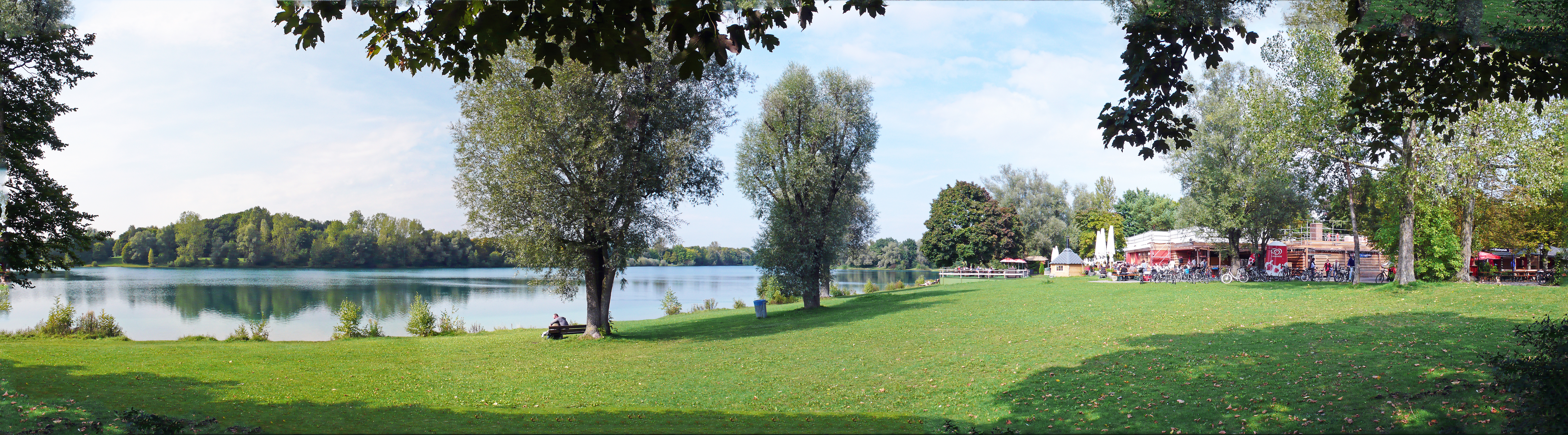 Karlsfelder See, Karlsfeld (Dachau County)- Panoramic